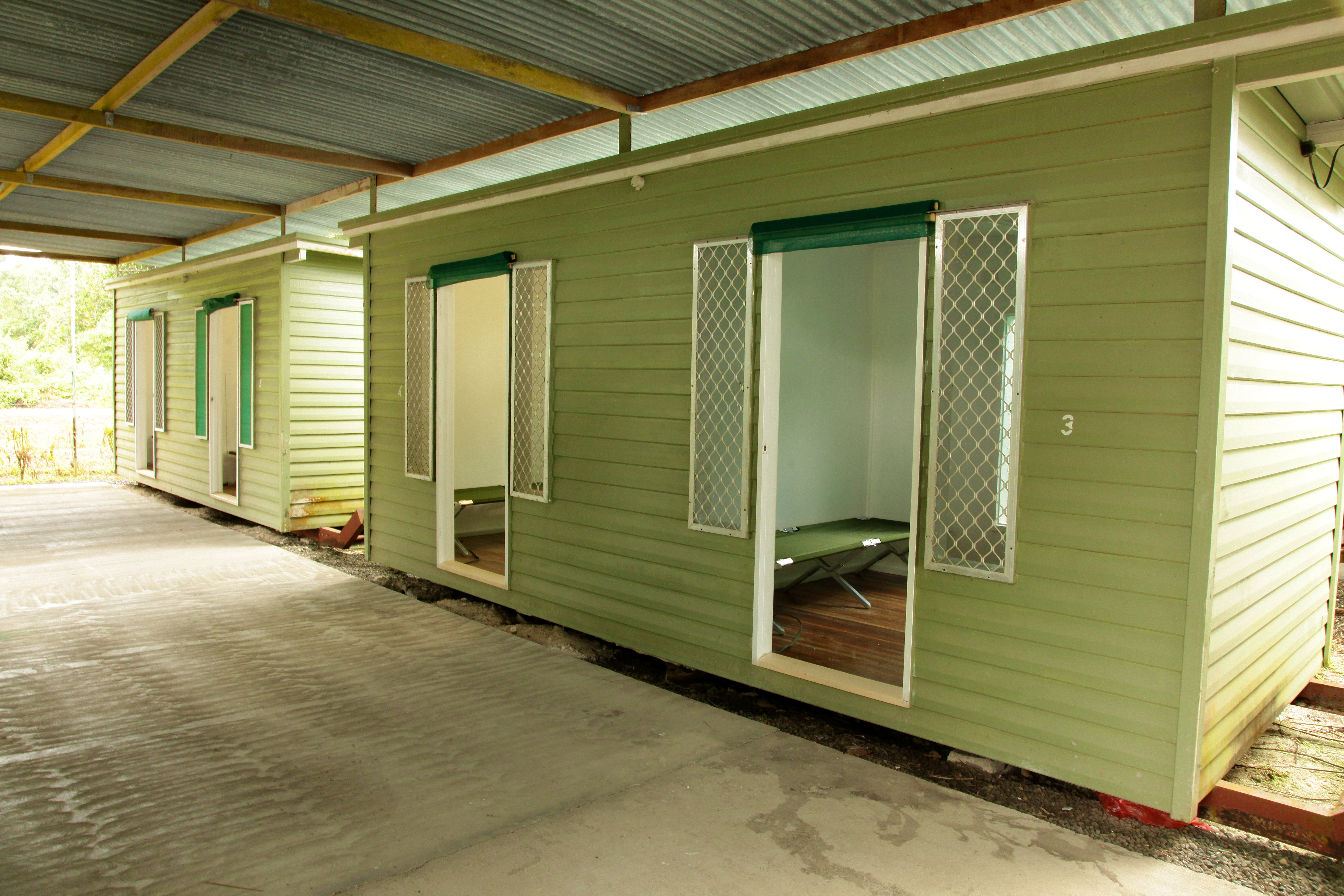 Manus Island regional processing facility